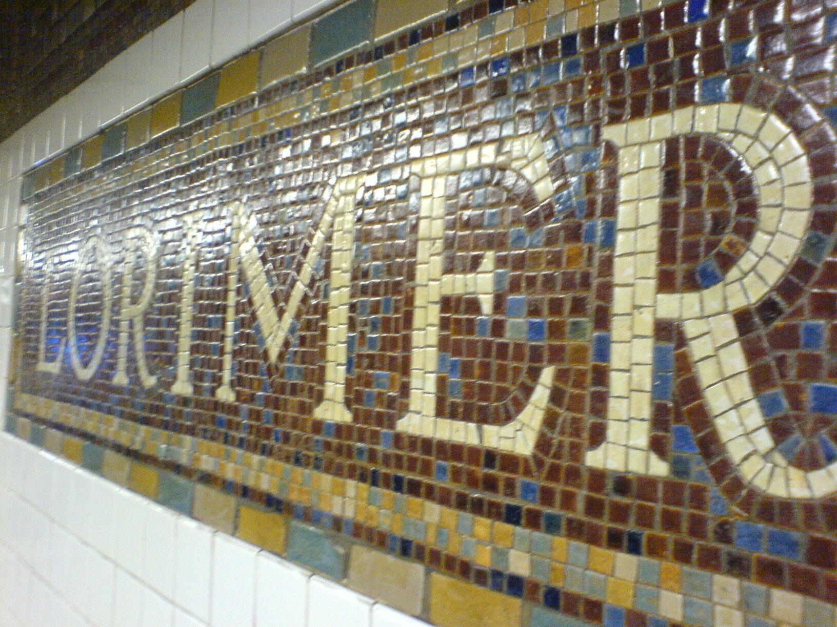 Wall mosaics at Lorimer Street station on the BMT Canarsie Line of the New York City Subway.